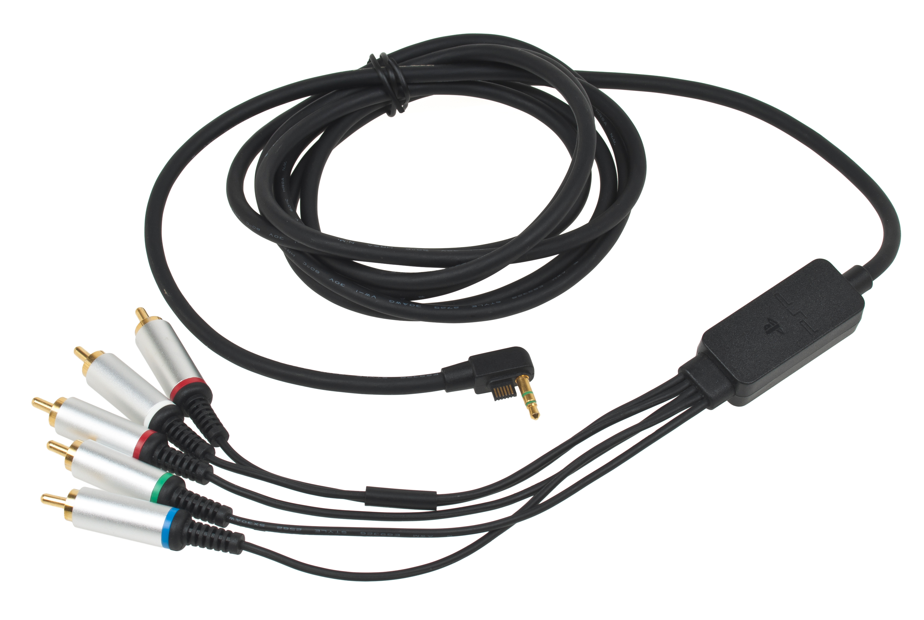 PSP component cable, which allows the device to output video to a TV. Only can be used with PSP-2000 and PSP-3000 models.